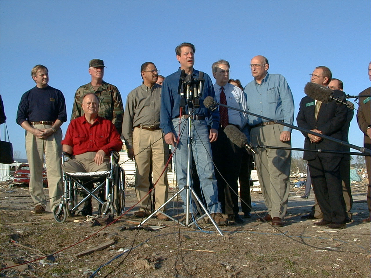 Camilla, GA, February 14, 2000 -- Vice President Al Gore, Senator Max Cleland, Congressman Sanford Bishop, FEMA Director James Lee Witt, FEMA Region 4 Director John Copenhaver, and other officials express concern and pledge federal assistance for the victims of Monday's devastating tornado. Photo by Liz Roll/ FEMA News Photo